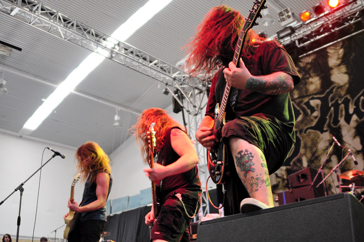 No Sleep Til Festival 2010